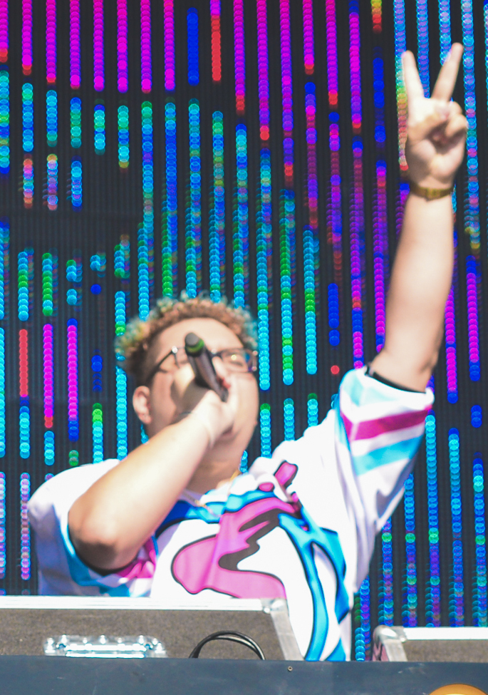 Slushii performing at the Mad Decent Block Party in Fort York Garrison Commons on August 19th, 2016